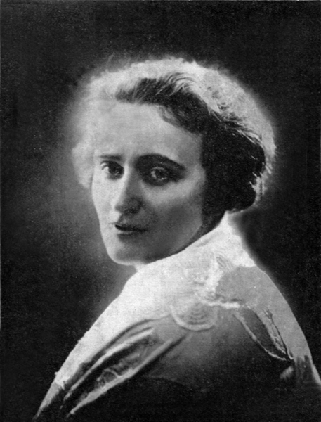 Kazimiera Iłłakowiczówna, Polish poet, photo taken 1928